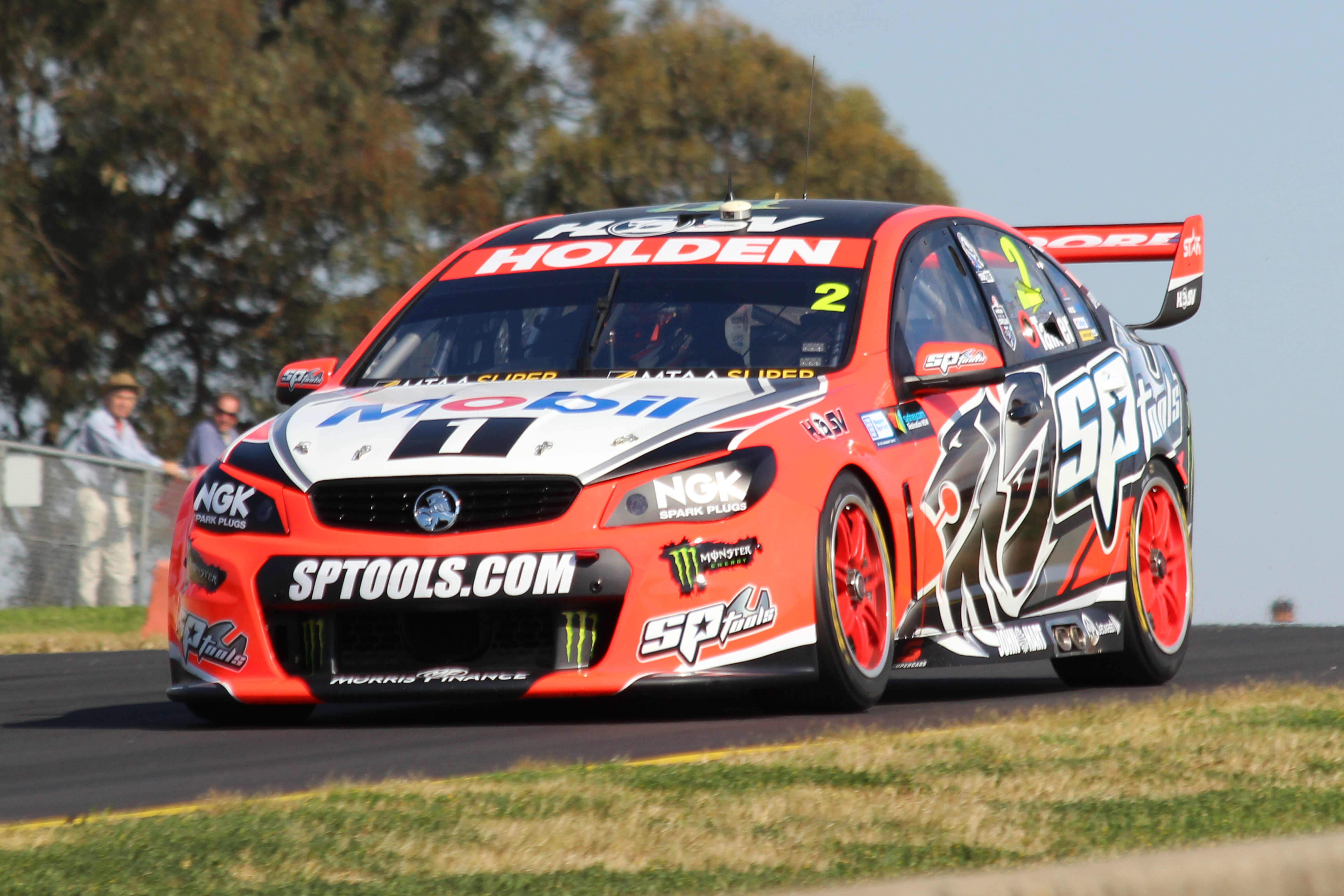 Garth Tander during a practice session at the 2015 Sydney Motorsport Park Super Sprint.